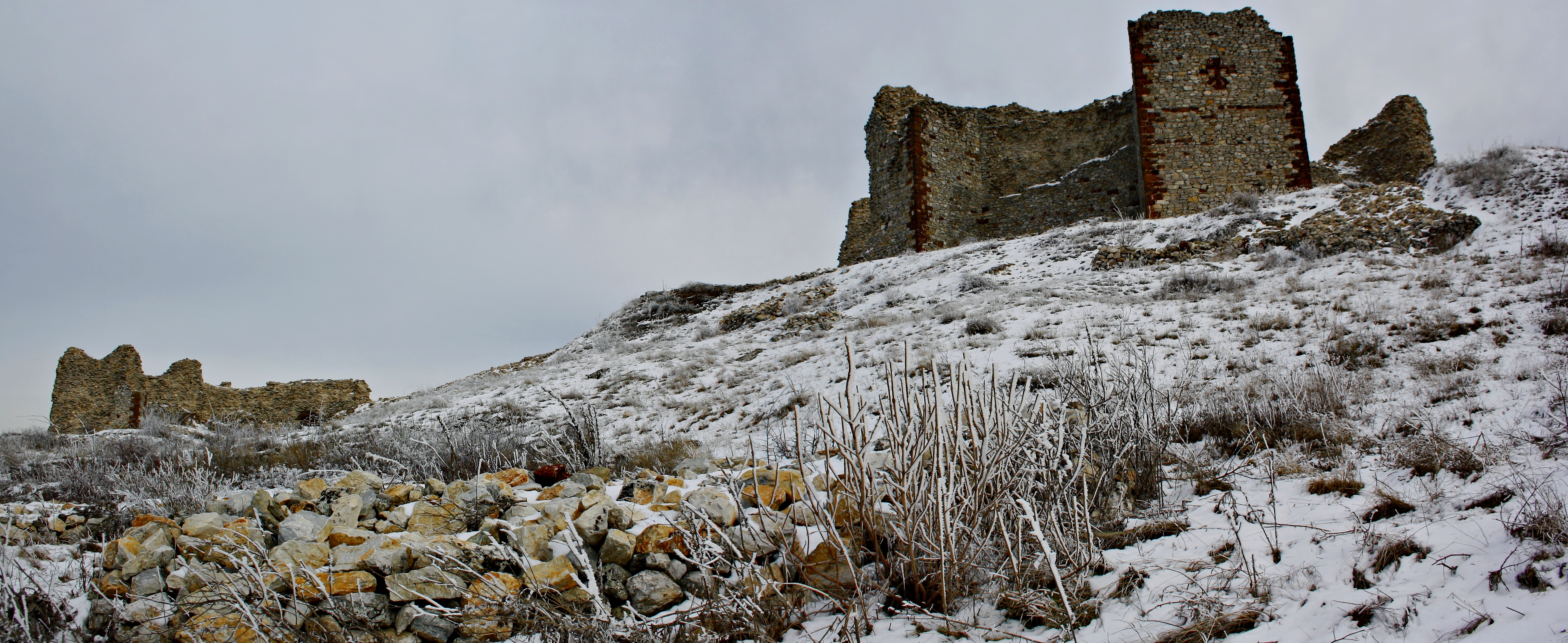 Novo berdë's (Novo brdo's) castle was built on top of Novo berdë (Novo brdo) Mountain in 13th century, during the reign of Prince Lazar, and was later fortified in the 14th century under the orders of Sufi Sinan Pasha, the Turkish bey of Budim. This huge fortress was constructed on top of a remnant volcano. Its ruins, where today one may see a huge cross carved into its outer stone walls, can still be visited.